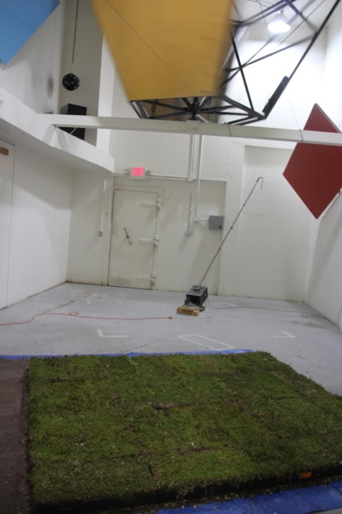 A reverberation chamber is used to test the sound absorption coefficients of materials, in this case green roof panels